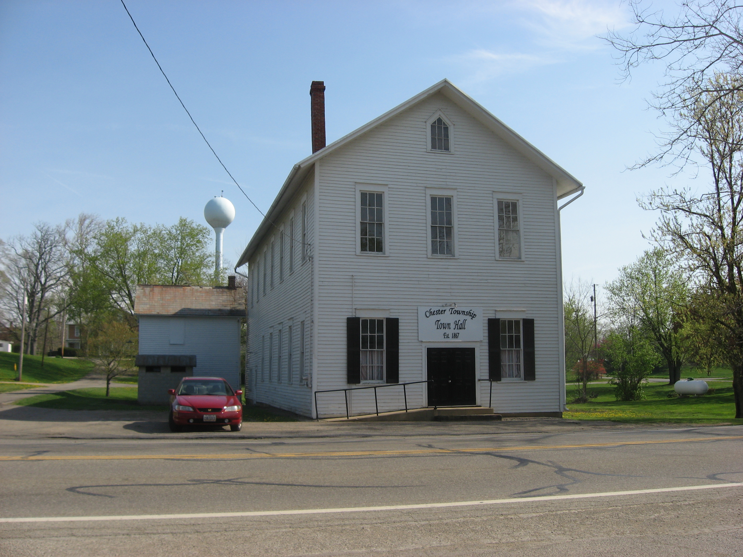 Front of the Chester Town Hall, located on the northeastern corner of the intersection of Sandusky (State Route 95) and Short Streets in Chesterville, Ohio, United States. Built in 1867 as an IOOF lodge and later sold to the Chester Township Trustees, it is listed on the National Register of Historic Places.